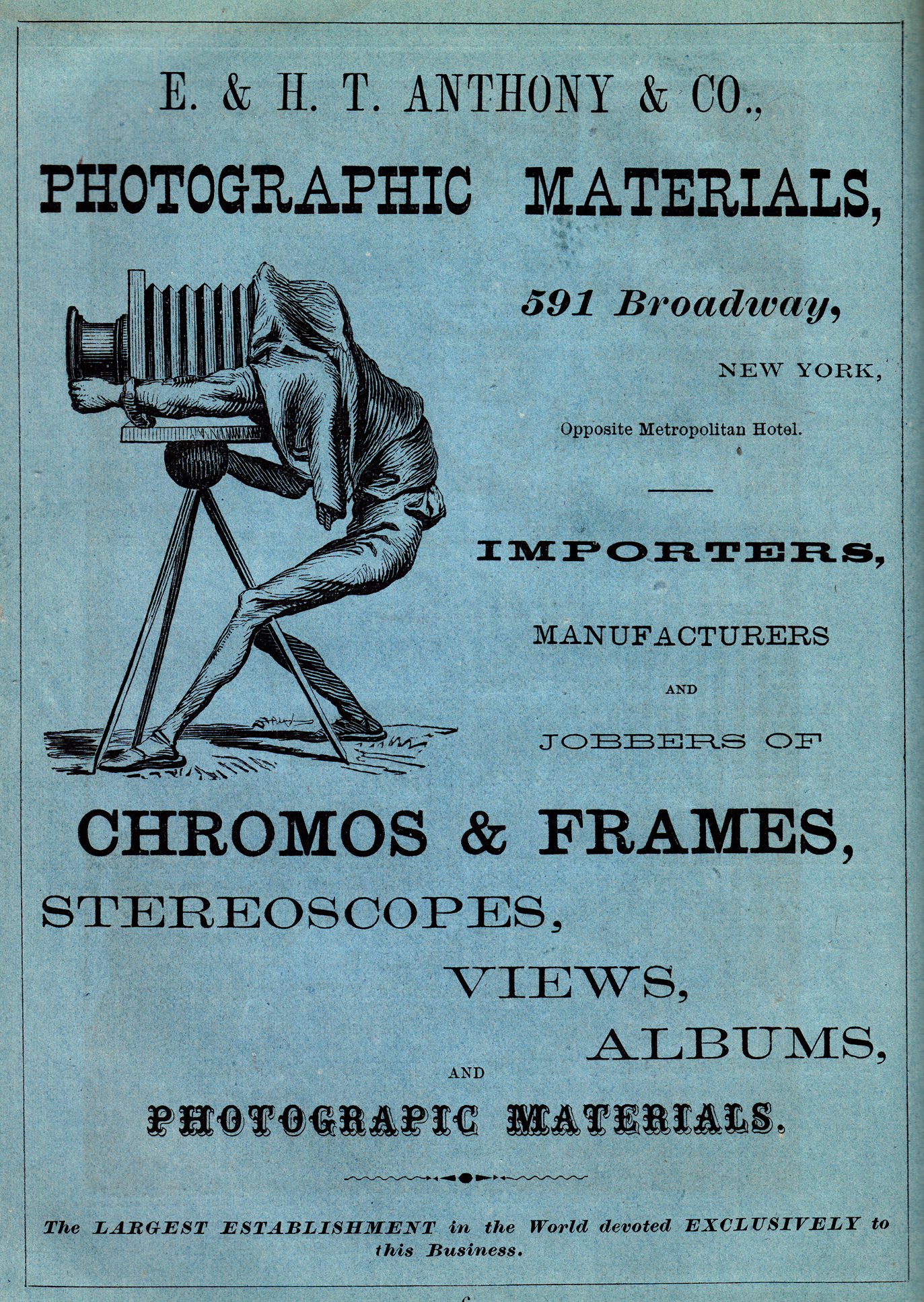 Display advertisement for E. & H.T. Anthony & Co., Photographers (1870)